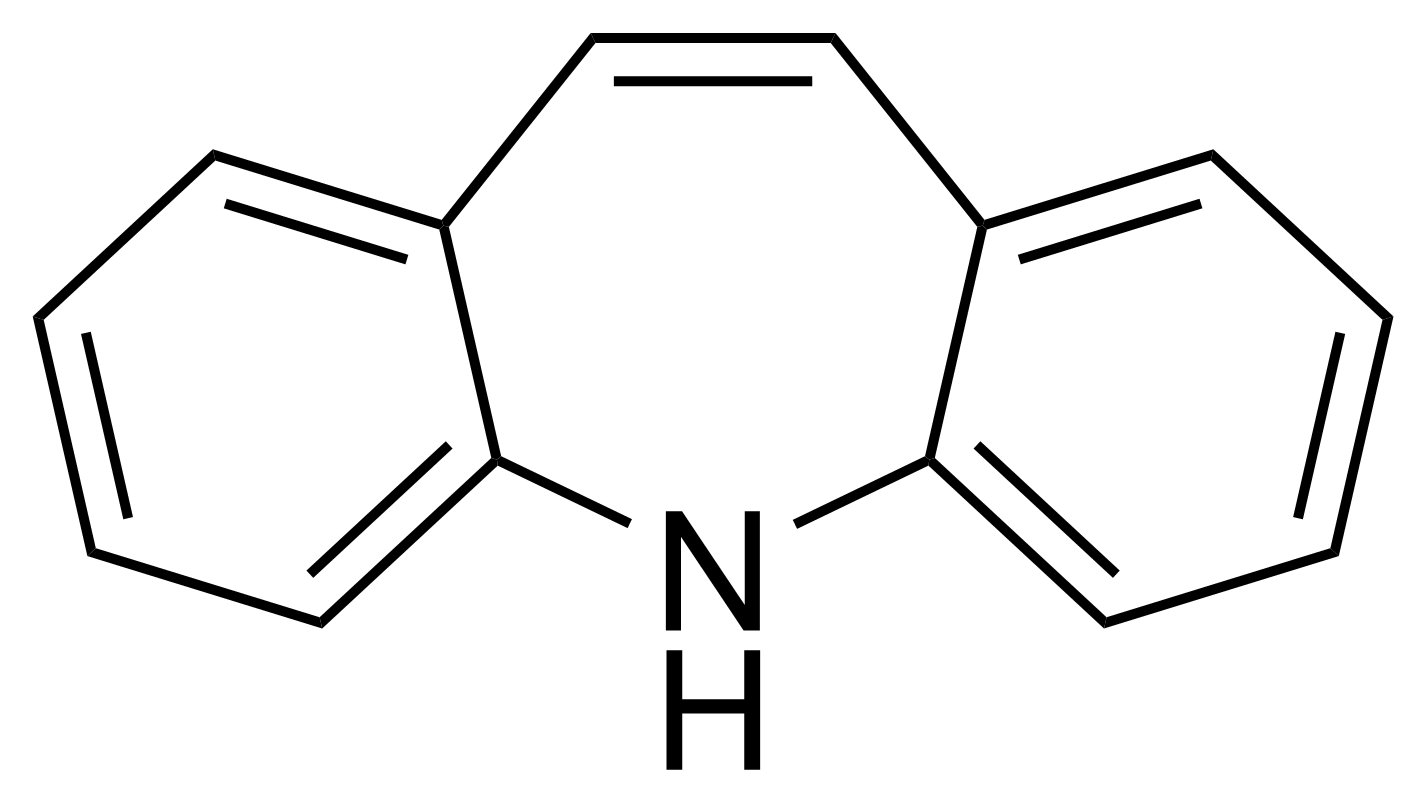 I made this, anyone can use it Comments High-resolution black/white .PNG made with ChemDraw — see WikiProject Chemistry - structure drawing for detailed instructions. Please drop me a note if you need the source file.